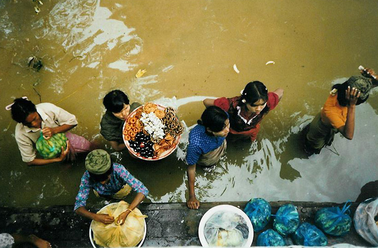 Along the Irrawaddy River, Central Burma/Myanmar.